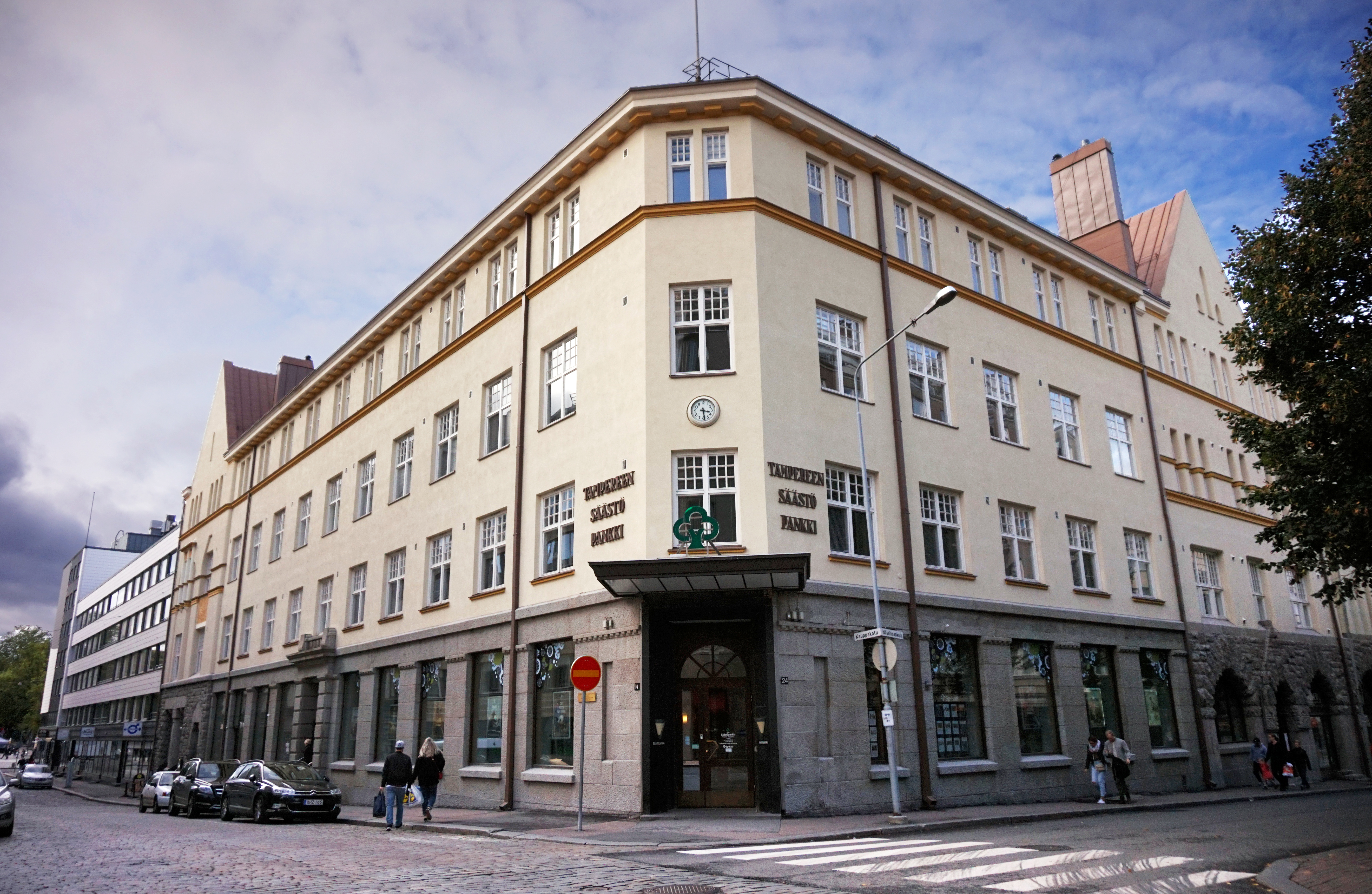 A building in Tampere.This photograph was taken with a Sony ILCE-5000